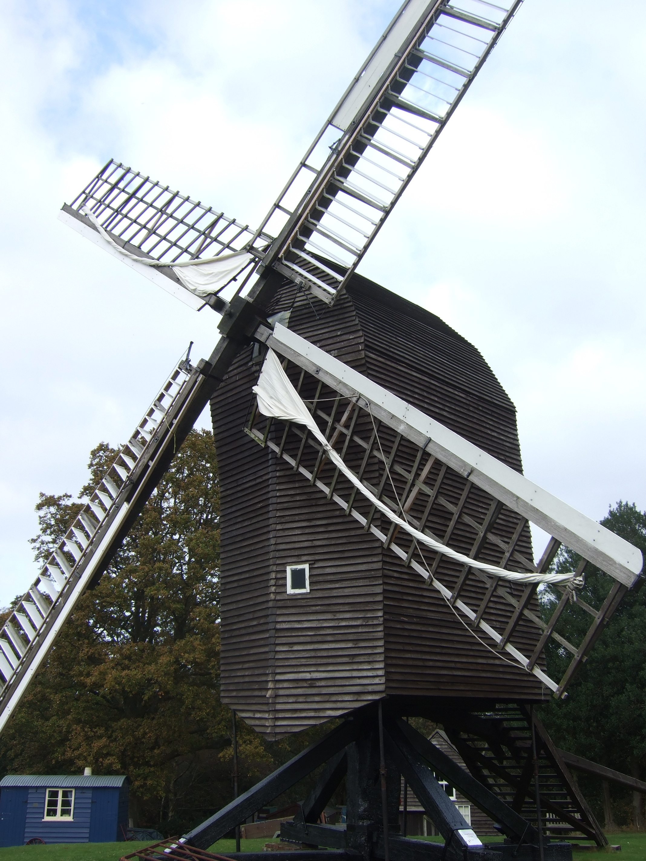 Nutley Windmill, Nutley, East Sussex